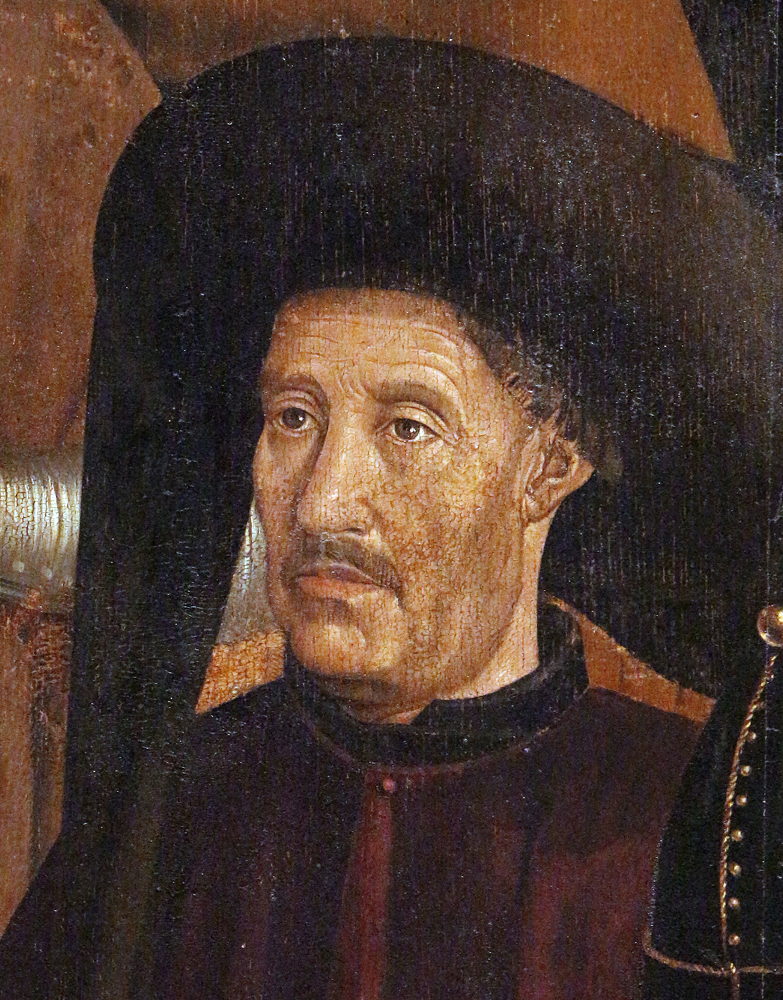 Detail of standing man with moustache and Burgundian-style chaperon in the "Panel of the Prince" (third panel of the St. Vincent panels, usually dated c.1470, attributed to painter Nuno Gonçalves). This figure is most commonly identified as Prince Henry the Navigator (died 1460, aged 66). Several scholars (e.g. Markl, 1994; Salvador Marques, 1998) have recently disputed this identification, and instead proposed this to be an image of King Edward of Portugal (d. 1438, aged 47), although this is not yet widely accepted.